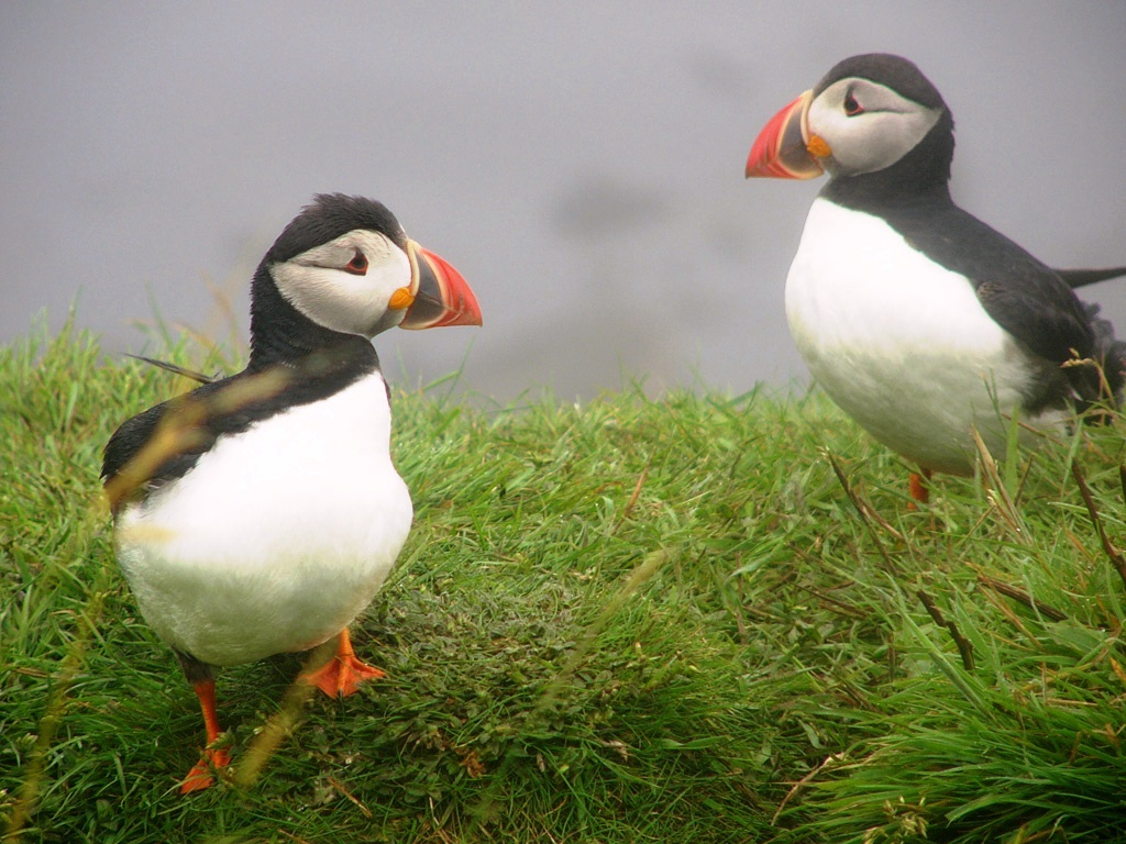 Two puffins on Lunga, Scotland.